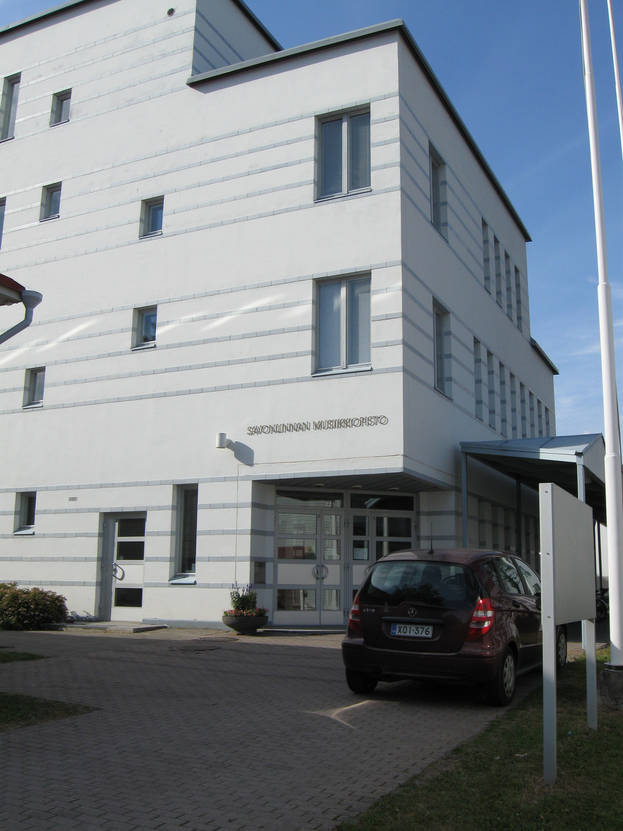 The music school of Savonlinna, Finland.